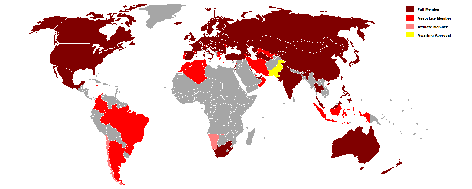 This is a map that shows countries which are members of the IIHF, and details regarding what kind of members they are.